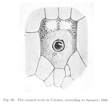 Parietal eye of lizard Calotes: top view